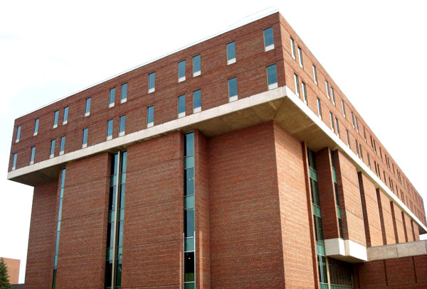 Pray-Harold Hall at Eastern Michigan University in Ypsilanti Michigan